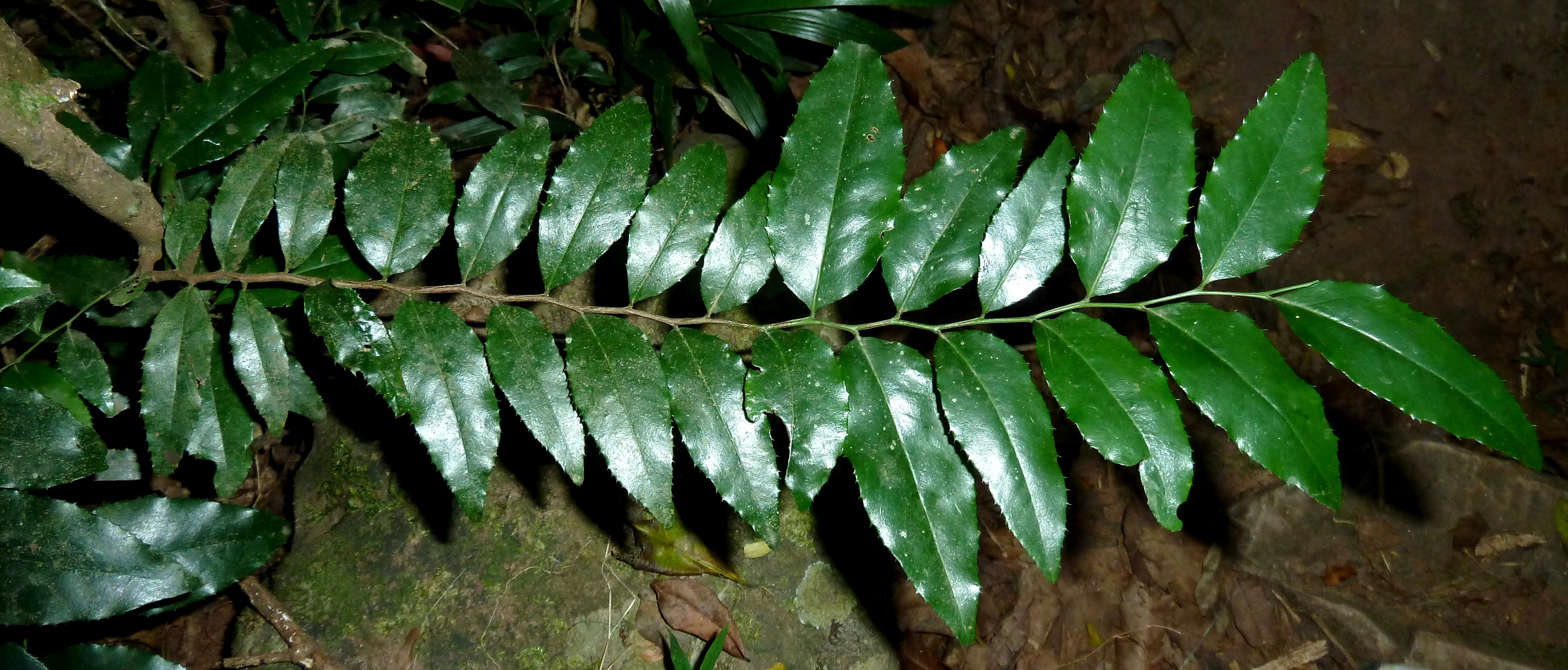 Leafy twig of a Thorny elm in Krantzkloof Nature Reserve, KwaZulu-Natal